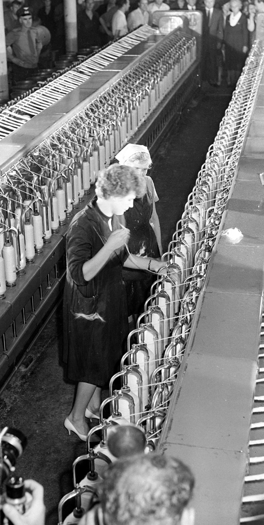 “USSR Pilot-cosmonaut Valentina Tereshkova”. USSR Pilot-cosmonaut Valentina Tereshkova at a spinning shop of Krasny Perekop" Yaroslavl technical fabrics mill.